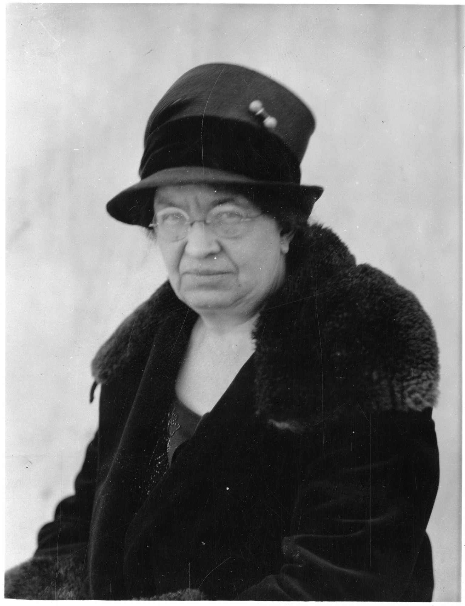 Subject: Sabin, Florence Rena 1871-1953 Johns Hopkins University School of Medicine Type: Black-and-white photographs Topic: Medicine Anatomy Local number: SIA Acc. 90-105 [SIA2009-2629] Summary: Florence Rena Sabin (1871-1953), anatomist and pioneering medical researcher, was the first woman to hold a full professorship at the Johns Hopkins School of Medicine Cite as: Acc. 90-105 - Science Service, Records, 1920s-1970s, Smithsonian Institution Archivess Persistent URL: Link to data base record Repository: Smithsonian Institution Archives View more collections from the Smithsonian Institution.